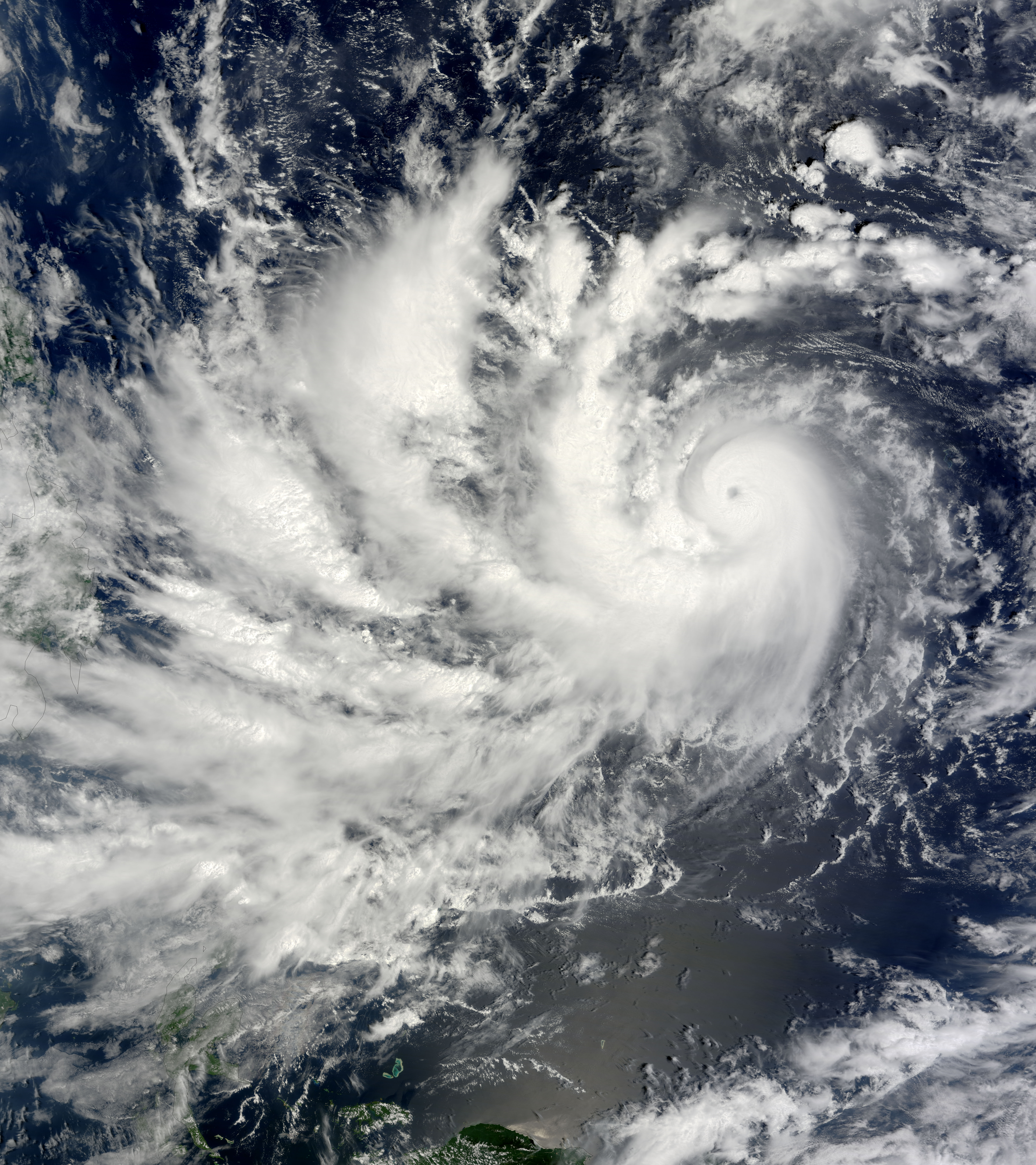 Typhoon Parma in September 30 2009.